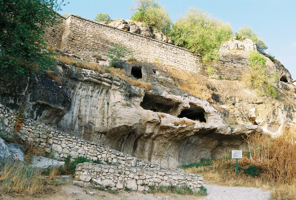 Cave dwellings and walls of Çufut Qale near Bakhchisaray, Crimea